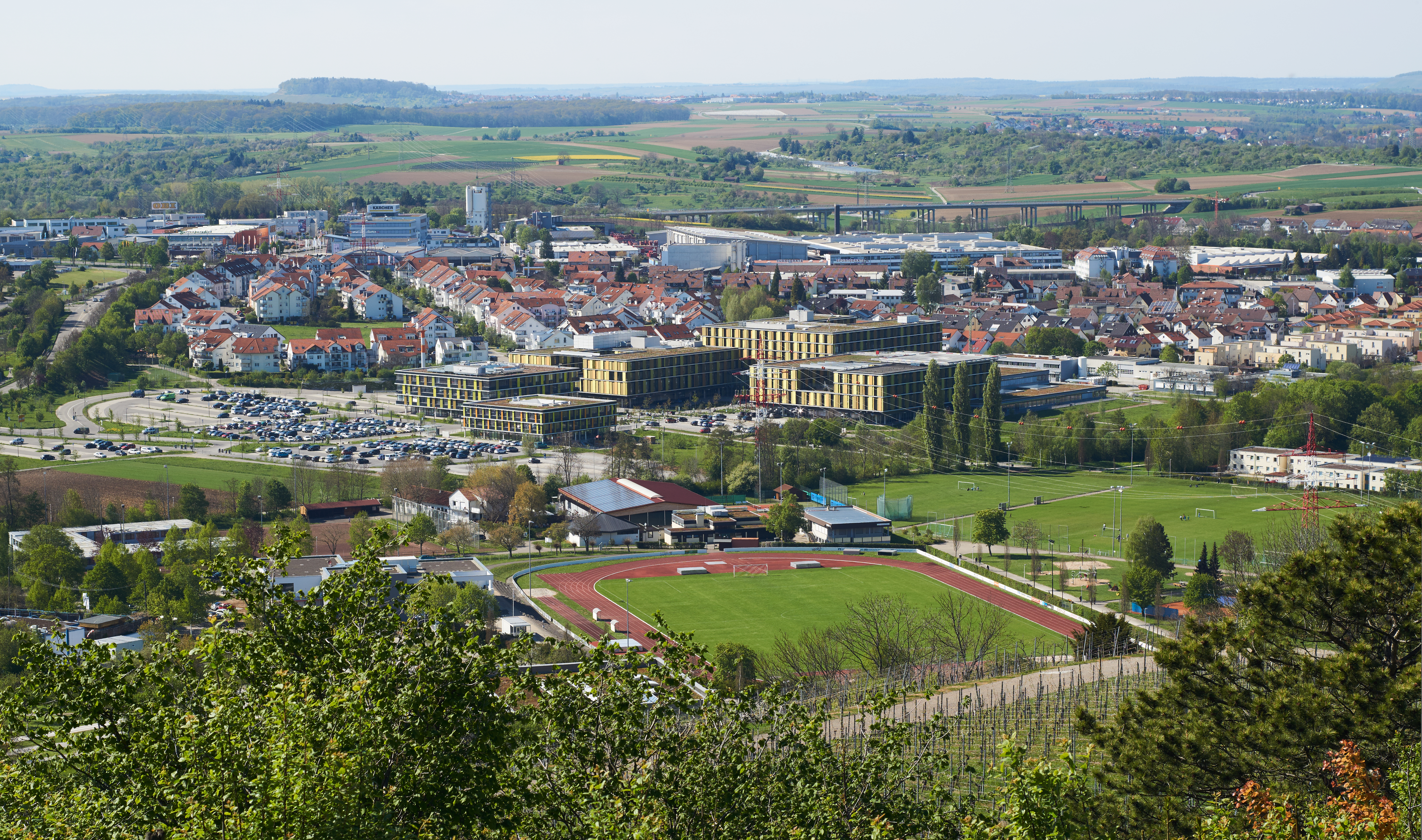 view onto Winnenden, a town in Baden-Württemberg, Germany